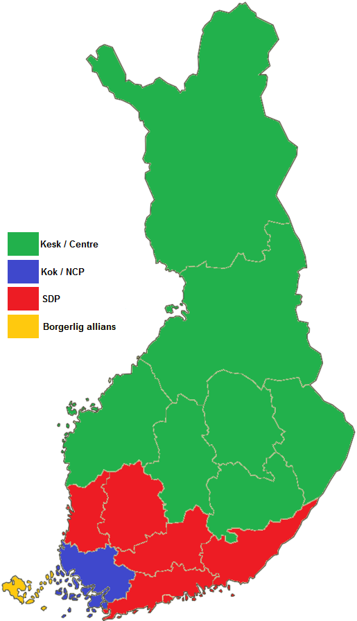 Finnish parliamentary election, 2003, results by constituencies